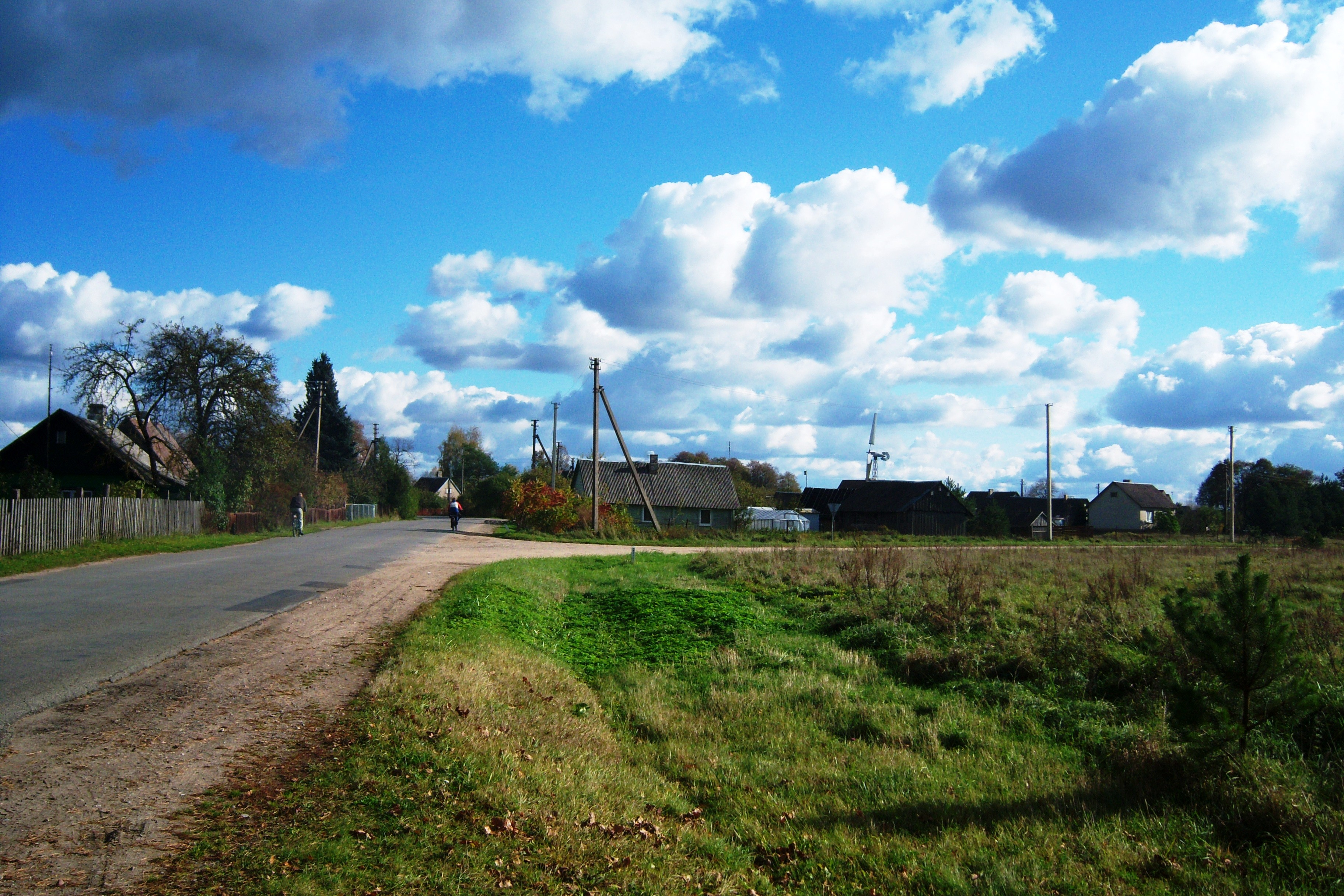 Užusaliai, Jonava District, Lithuania